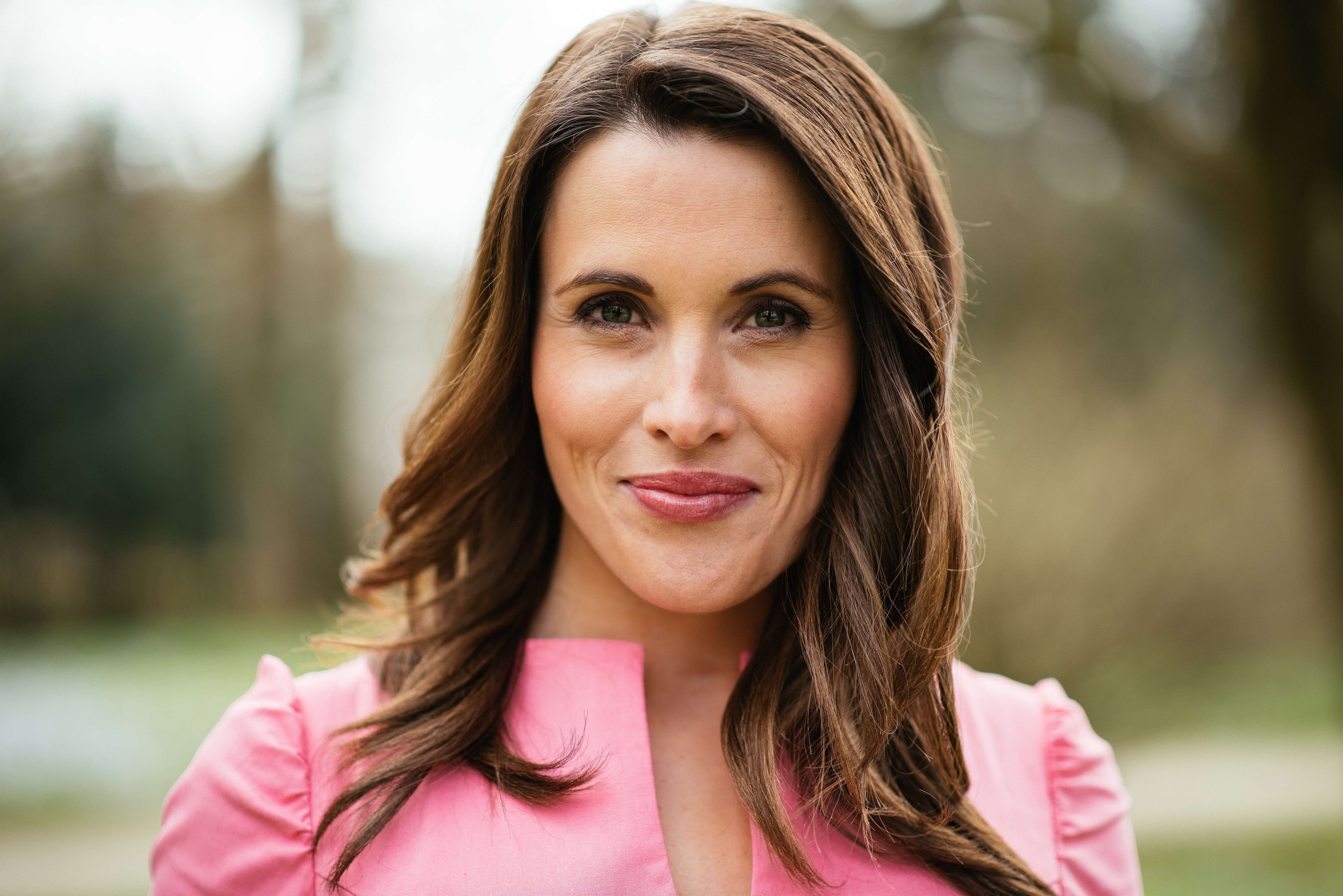 Picture of Birgit Noessing.